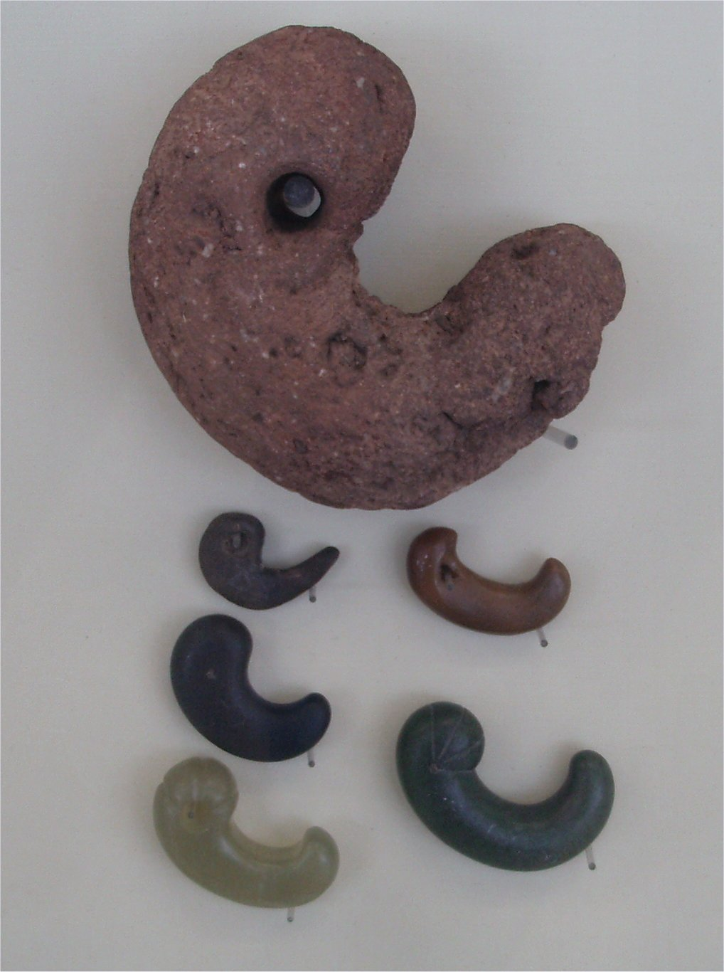 Jomon to 8th Century Magatama, Tokyo Area. Royal Museum, Edinburgh